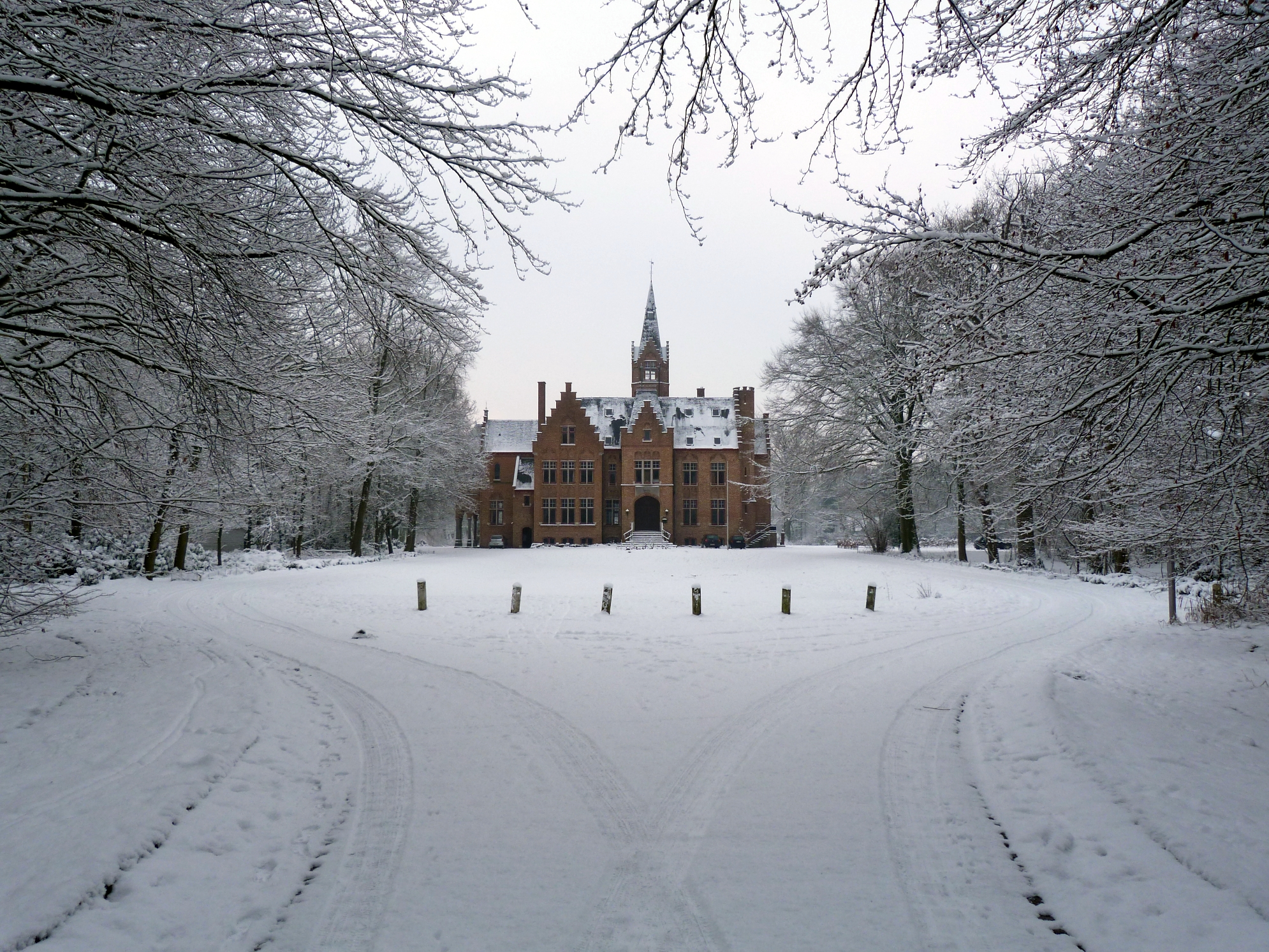 Ryckevelde castle in the snow